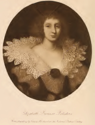 Elisabeth of Bohemia-Palatinatefrom A Sister of Prince Rupert by E. Godfrey. According from the text the original painting this photo is based off of was painted by Gerard Honthorst and hangs in the National Gallery.